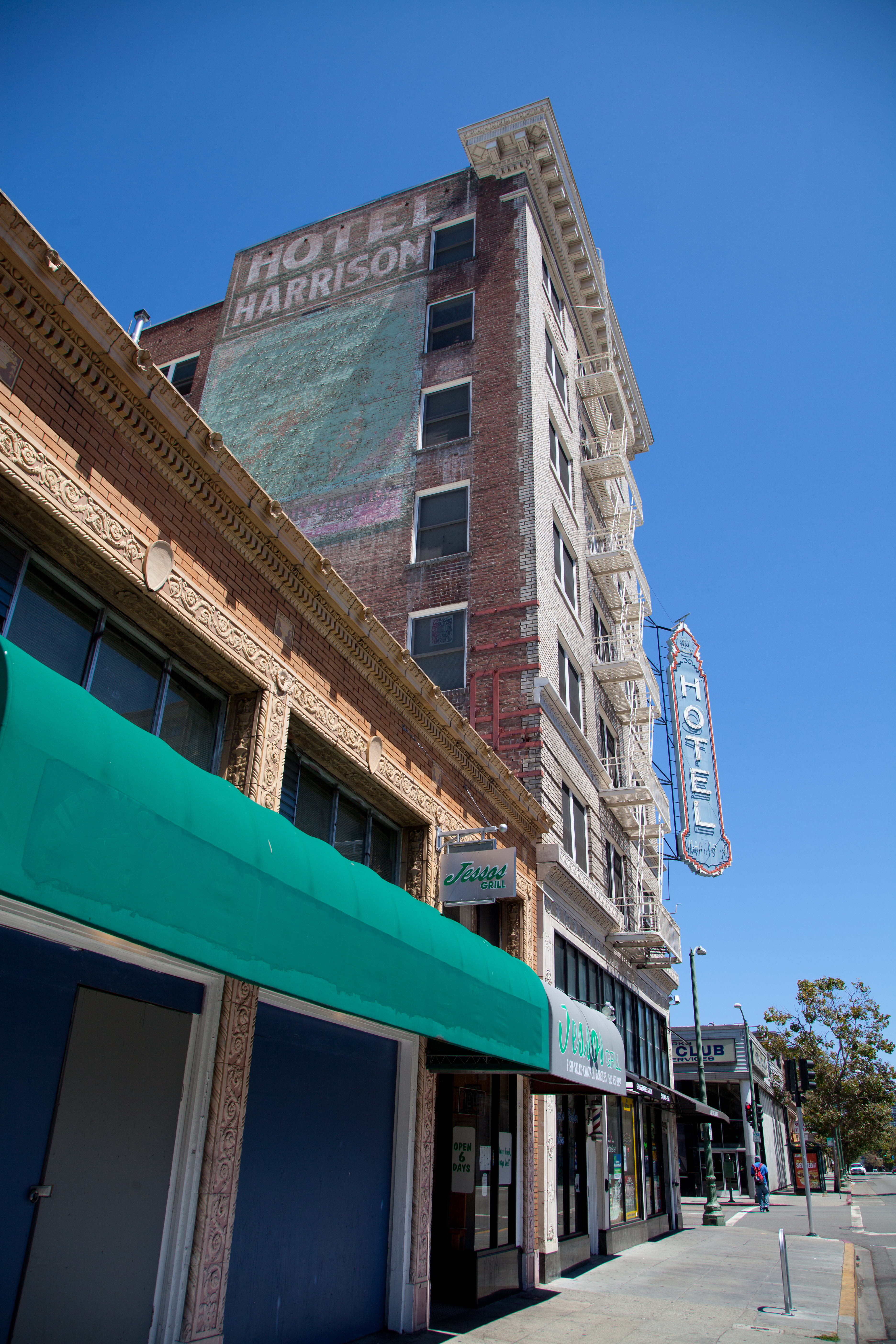 Harrison and Fifteenth Sts. Historic District